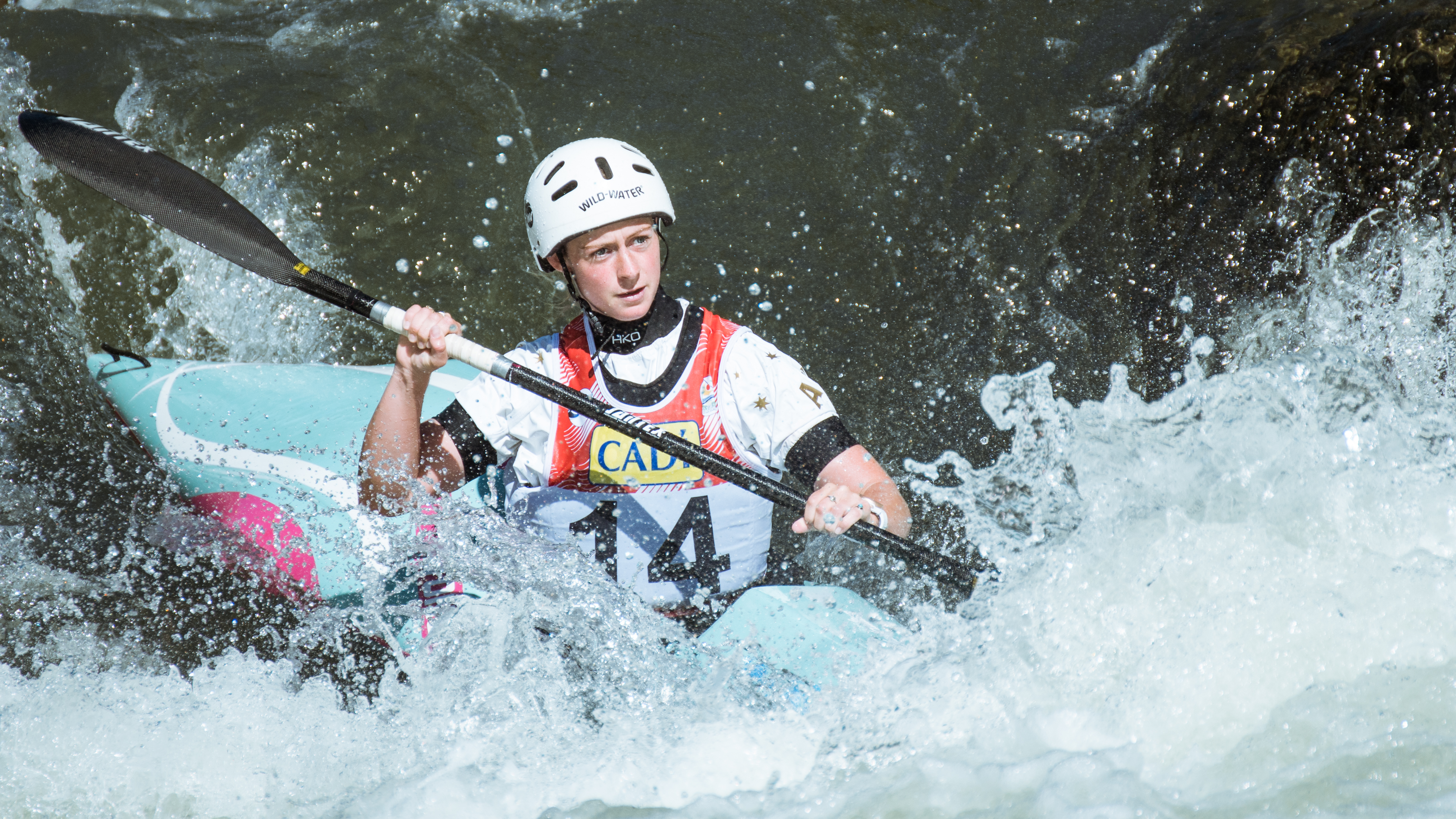 Georgina Collin during the 2019 Canoe Wildwater World Championships in La Seu d'Urgell, Spain.